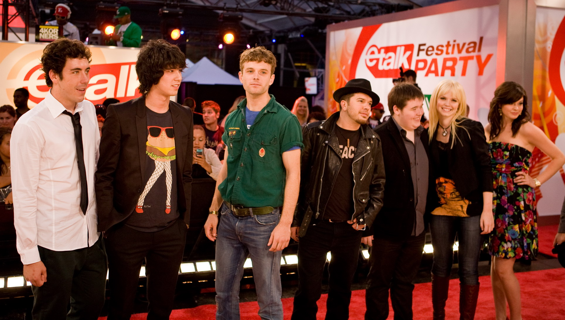 The Canadian Idol finalists at the eTalk Festival Party, during the Toronto International Film Festival.